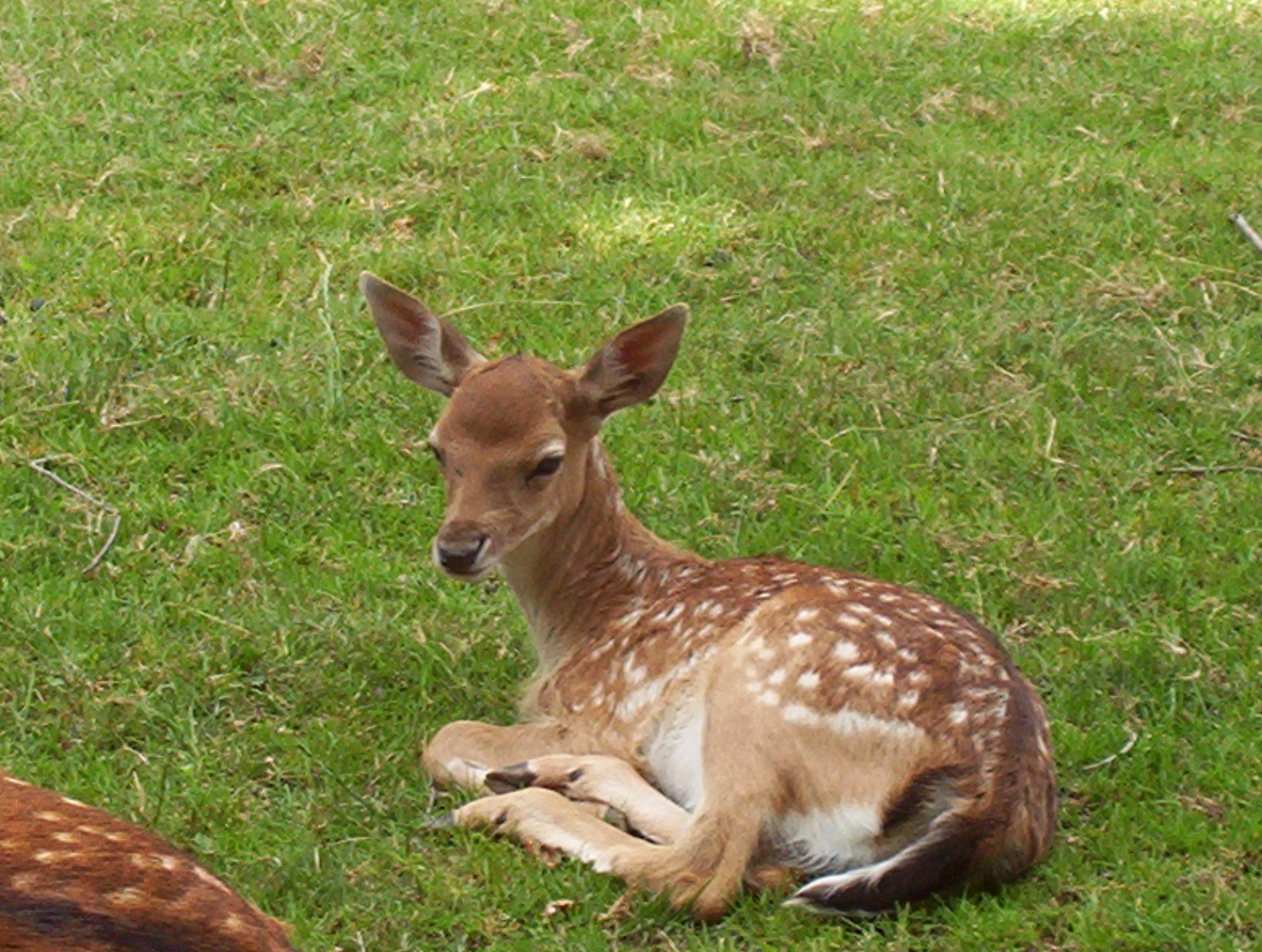 Fallow Deer (Dama dama)